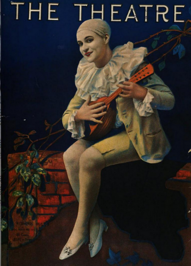 Marjorie Patterson as Pierrot (The Theatre, 1916). A woman in costume, strumming a ukulele, seated on a brick wall, in white makeup and baldcap.